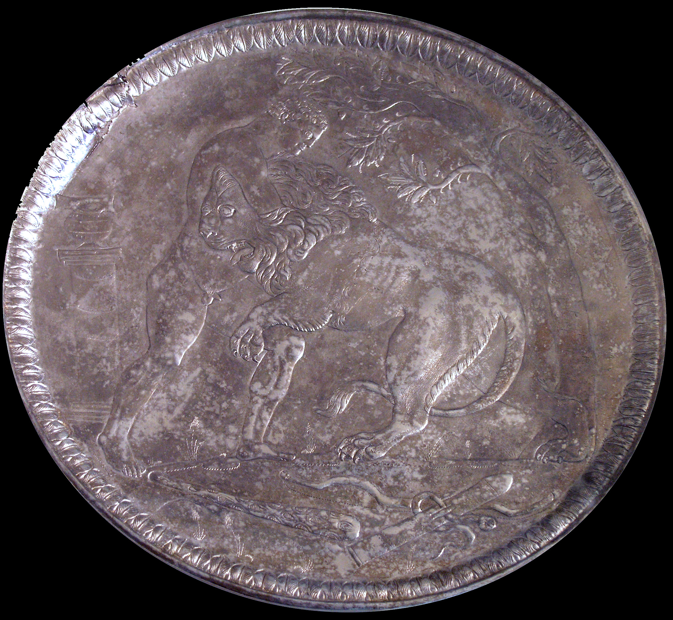 Heracles fighting the Nemean Lion. Silver missorium, 6th century CE (?).